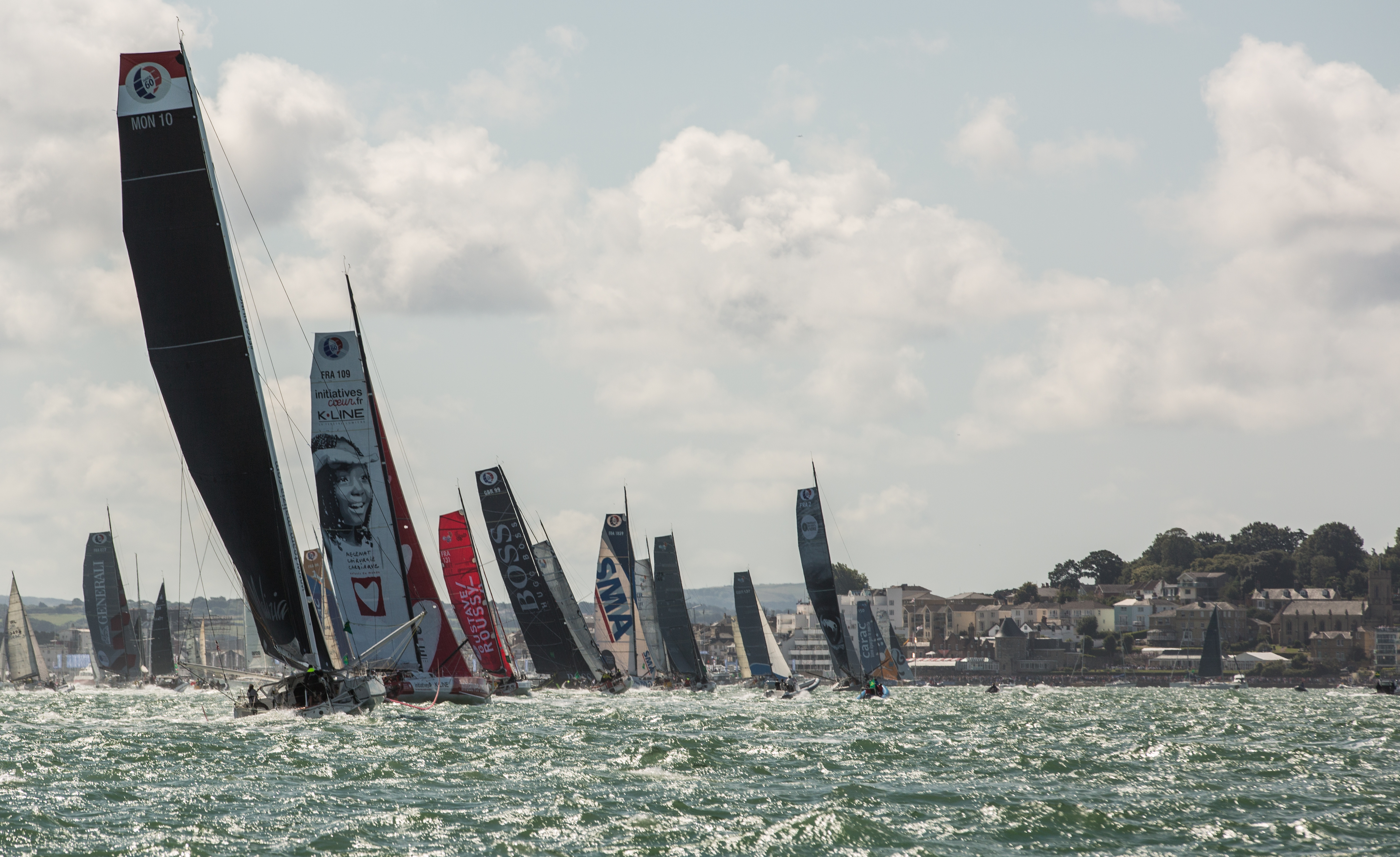 Fastnet weekend 2017 Yachts seen racing int he Solent off Cowes, Isle of Wight for the Fastnet 2017 race, held at the end of Cowes Week 2017.